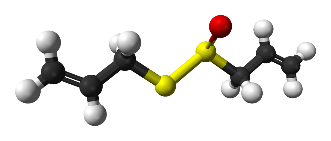 Ball-and-stick model of the (R)-allicin molecule